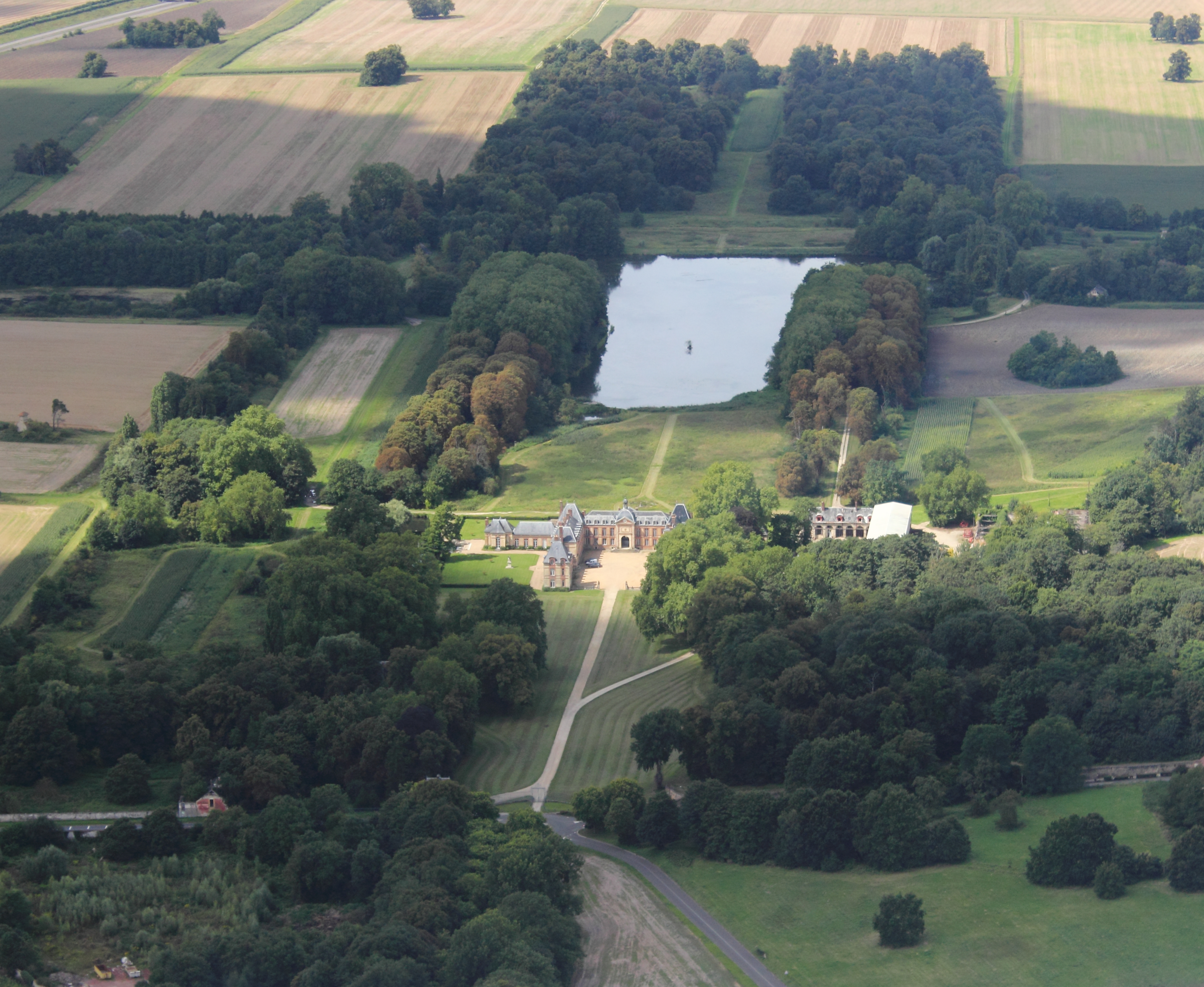 Aerial view of the Château of Pontchartrain